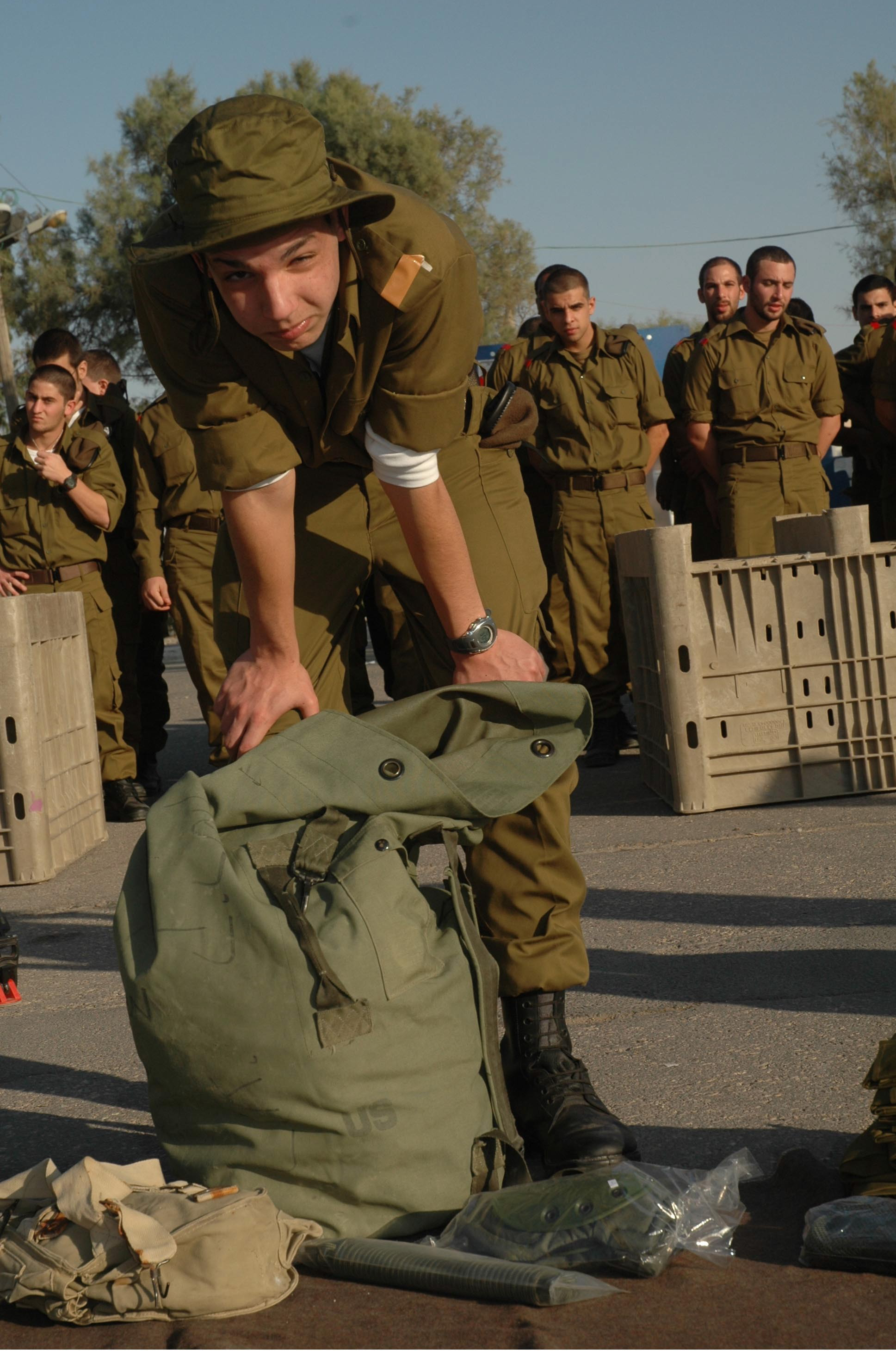 Qeziot Training Base is receiving the Givati recruits. The soldiers underwent the induction process and are starting to prepare for their Basic Training.